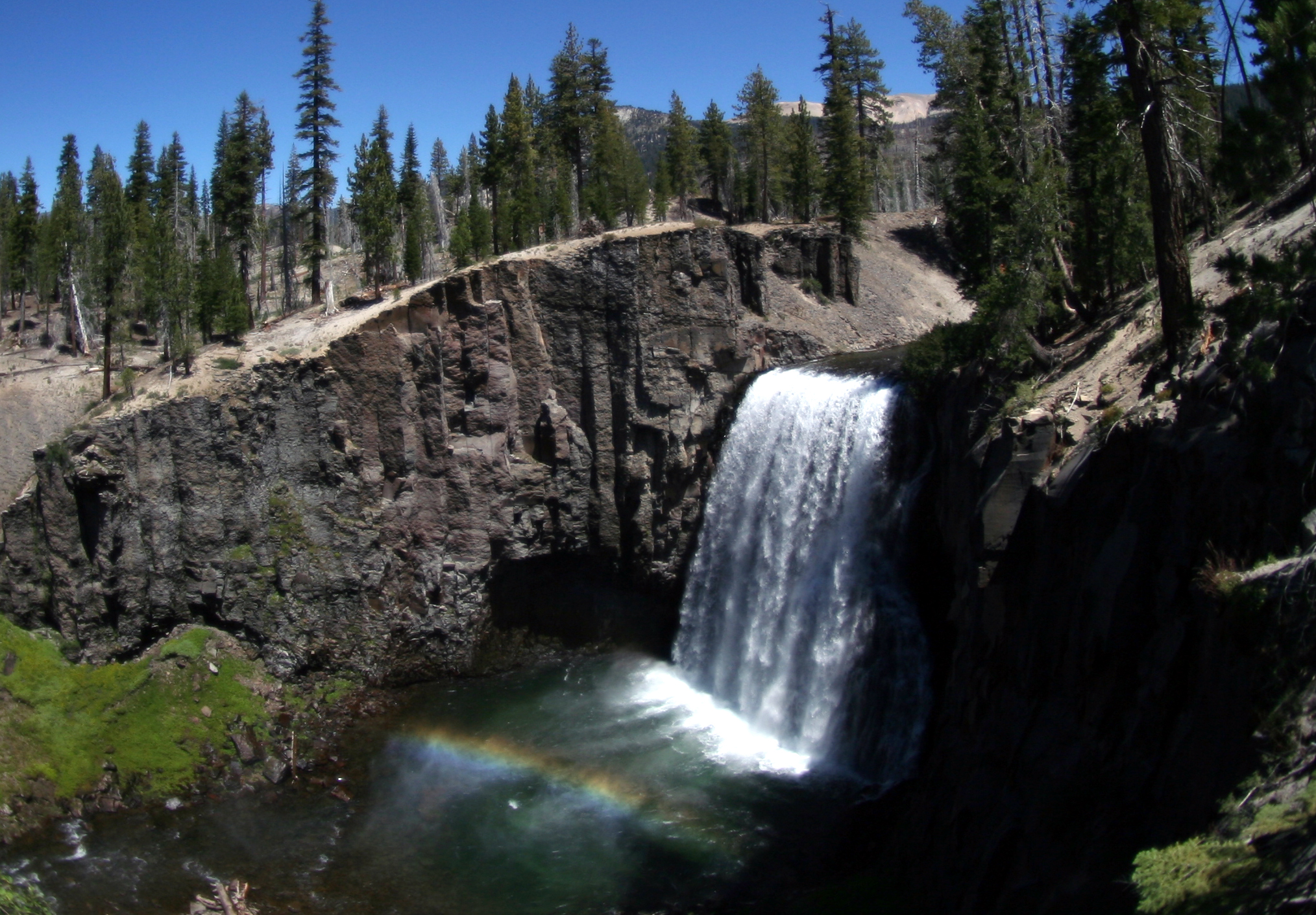 Rainbow Falls at Devils Postpile National Monument